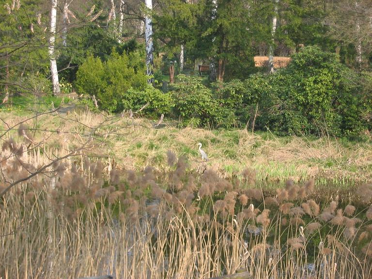 Natural monument kettle hole „Krummer Pfuhl“ in the cemetery „II. Städtischer Friedhof Eythstraße“, Berlin-Schöneberg, Germany, nearby Alboinplatz (place).